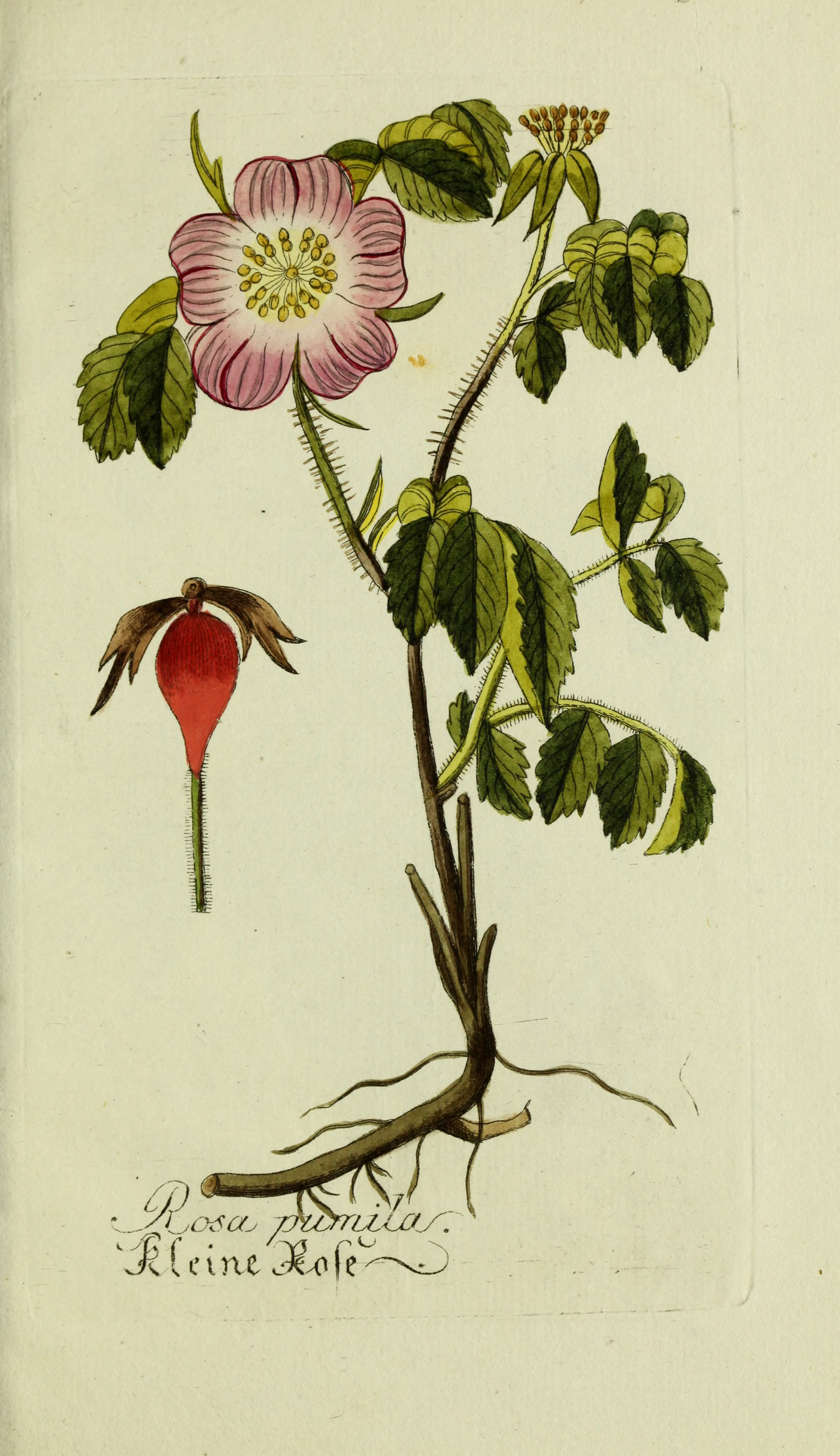 Title: Plantarum indigenarum et exoticarum icones ad vivum coloratae, oder Sammlung nach der Natur gemalter Abbildungen inn- und ausländischer Pflanzen, &c Year: 1788 (1780s) Authors: Subjects: Publisher: Wien Leipzig Text Appearing Before Image: ' Text Appearing After Image: '